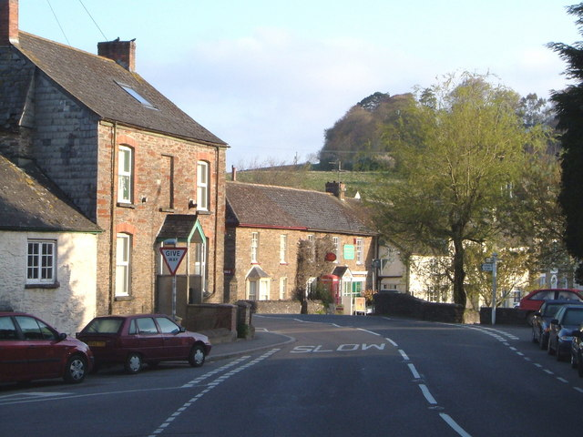 A381 at Harbertonford. The main road between Totnes and Kingsbridge swings across the River Harbourne in this village.